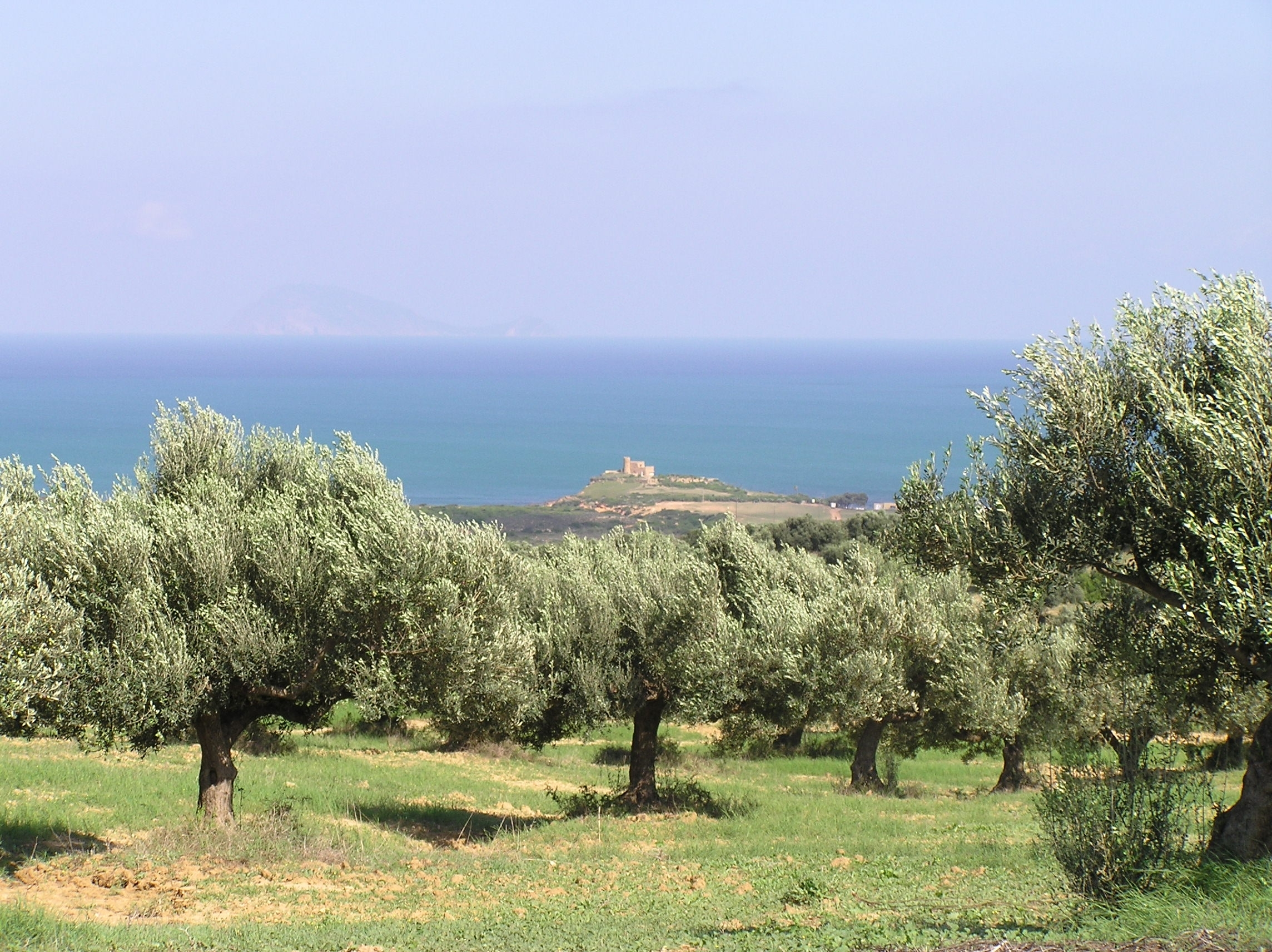 A collection of contemporary photos, dedicated to the people of Tunisia I dedicate this collection of photographs to the people of Tunisia, where I had the great privilege to live, work , explore and photograph between 2002 and 2006. Apart from the natural beauty and climate, what remains deepest in my memory is the warmth and friendship of the people and a national pride driven by the heartbeat of culture and civilisation. I hope that this selection of photos conveys some of that. The importance of Tunisia’s growth as a nation post World War II, and the example it set in gender equality and education are second to none. Tunisia was prepared to challenge and change; it is a beacon to all seeking equality, justice and peace. Nicholas Gosse, 2015